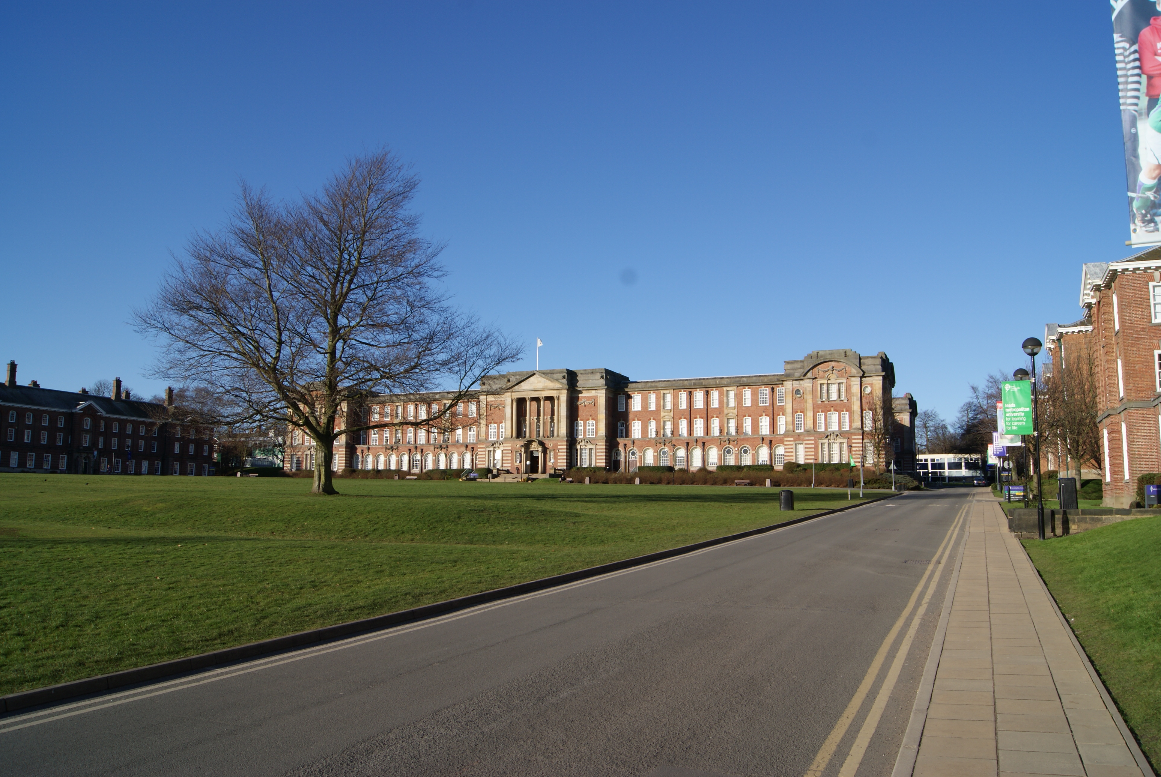 Leeds Metropolitan University, Beckett Park Campus, Headingley. Taken on the afternoon of Saturday the 30th of January 2010.